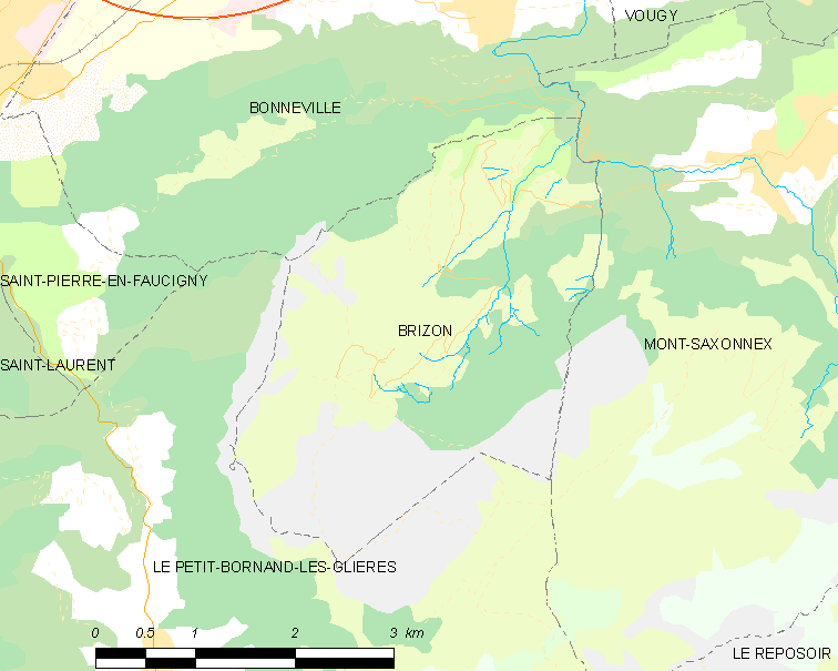 Map of French municipality Brizon